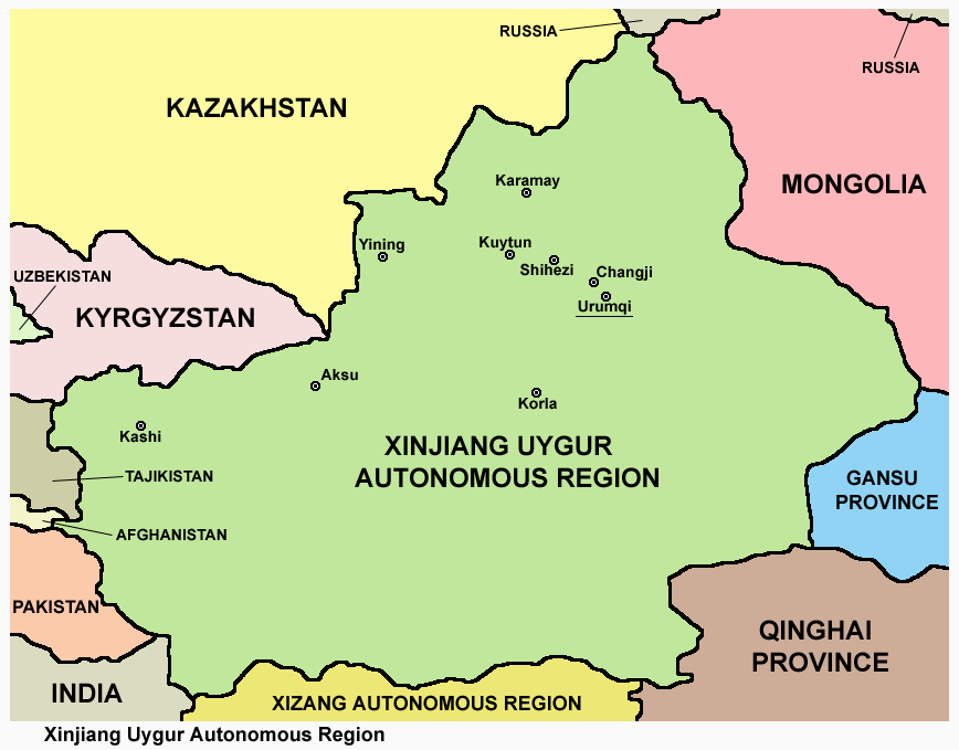 Map of Xinjiang Uygur Autonomous Region.